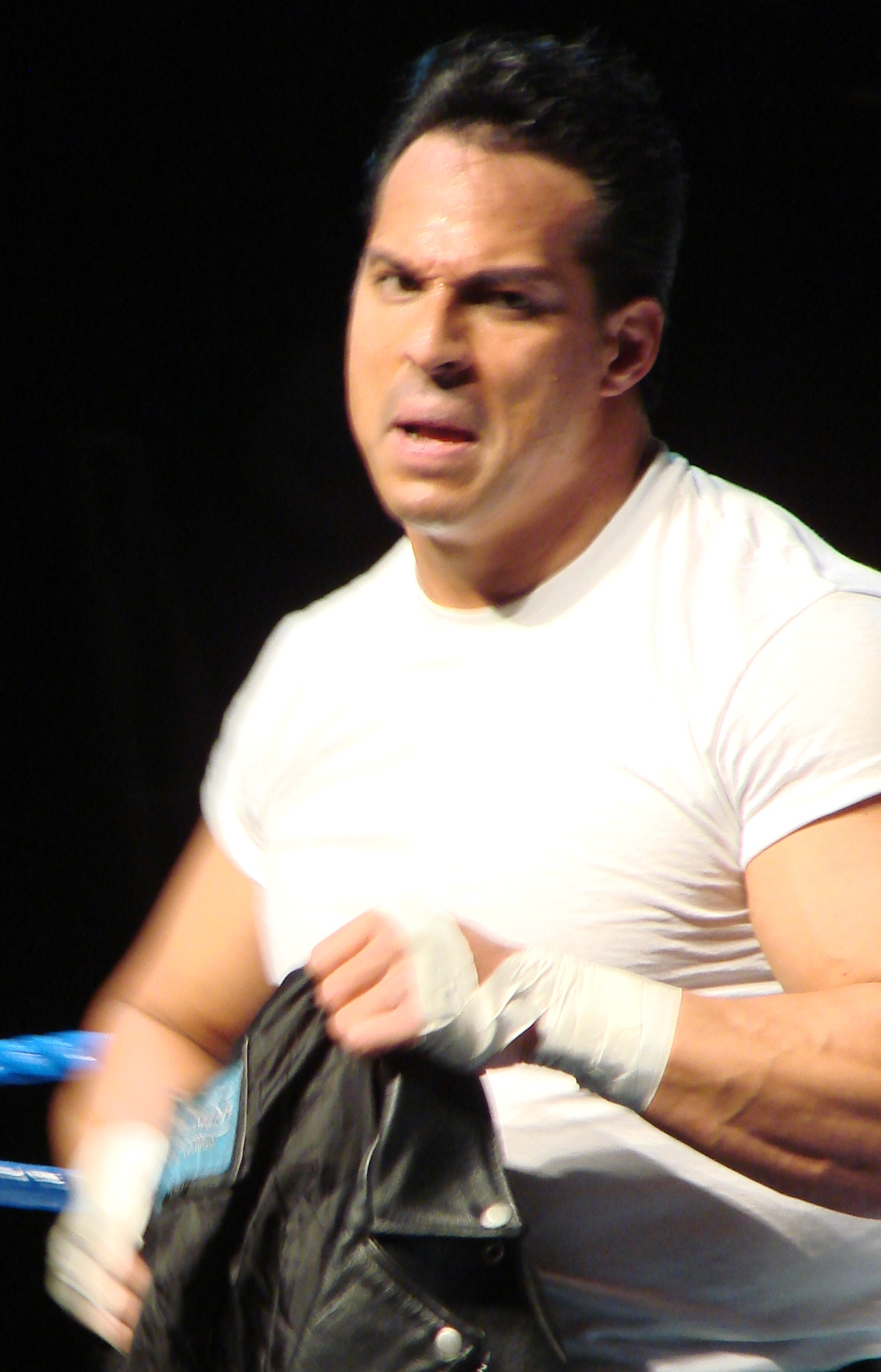 Domino at a SmackDown! live event in at the Assembly Hall (Champaign). February 4en:2007.